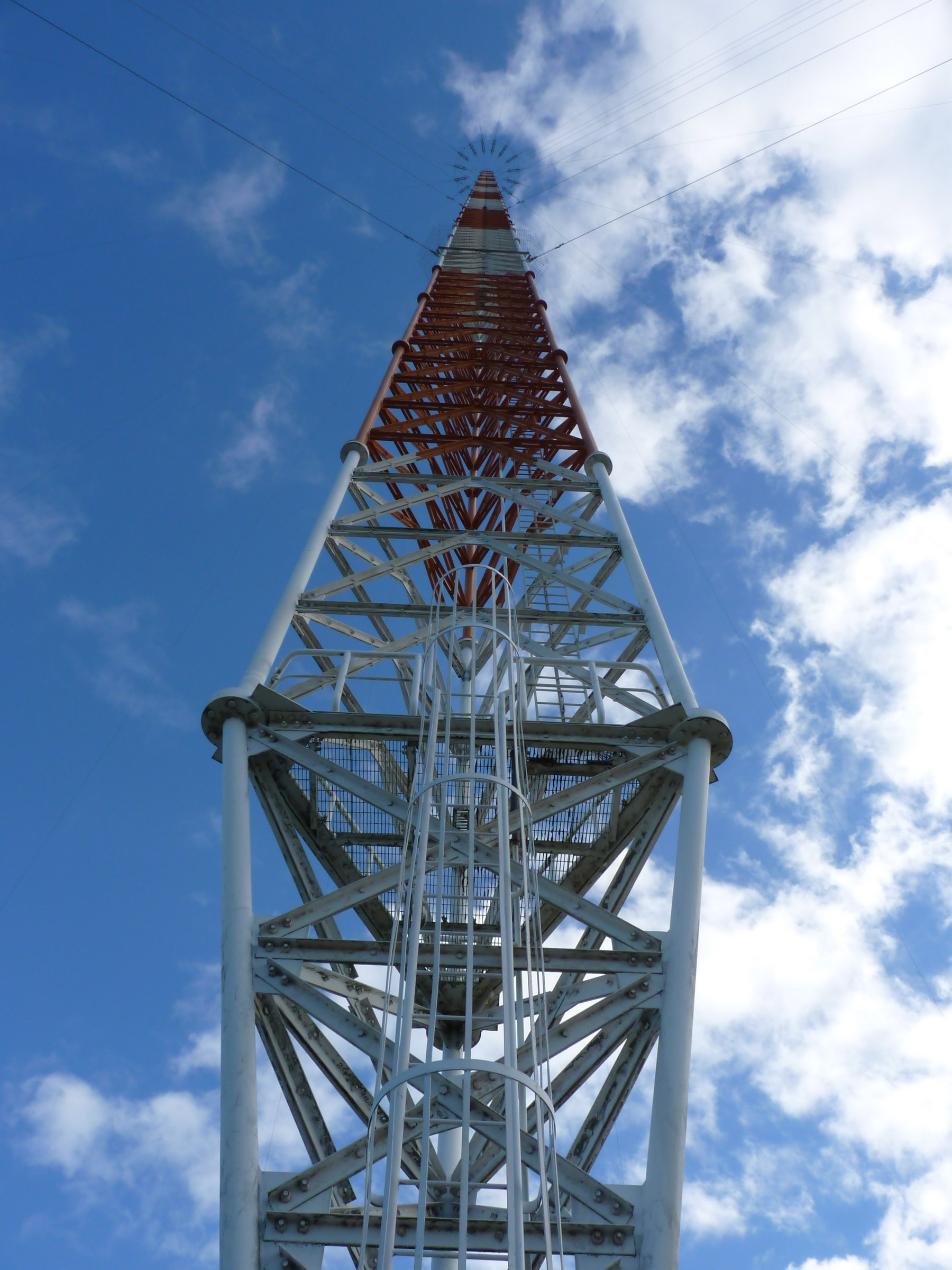 Photograph of the base of the former Omega transmitter in Woodside, Victoria